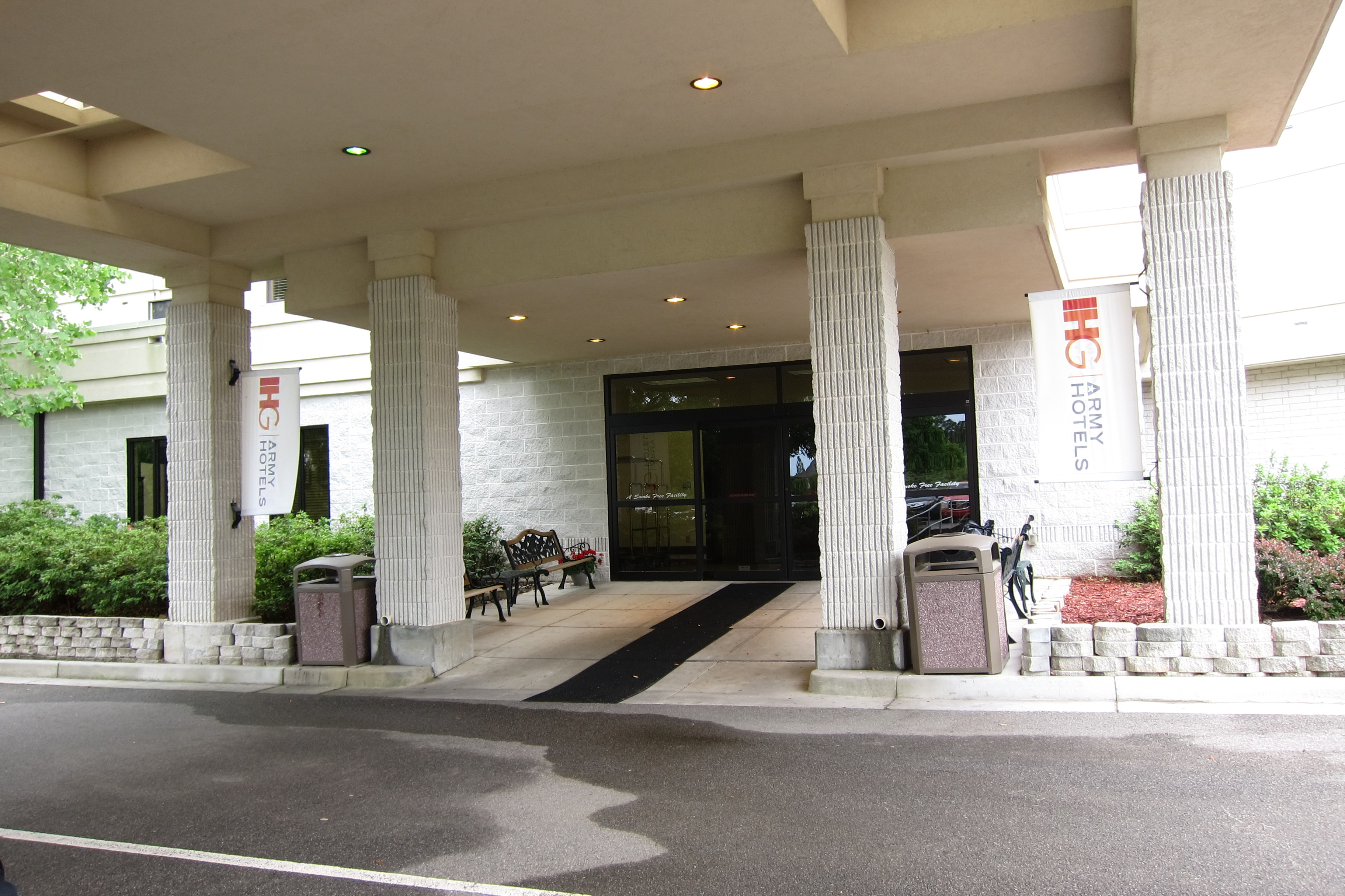 Entrance to IHG Army Hotels on Fort Gordon